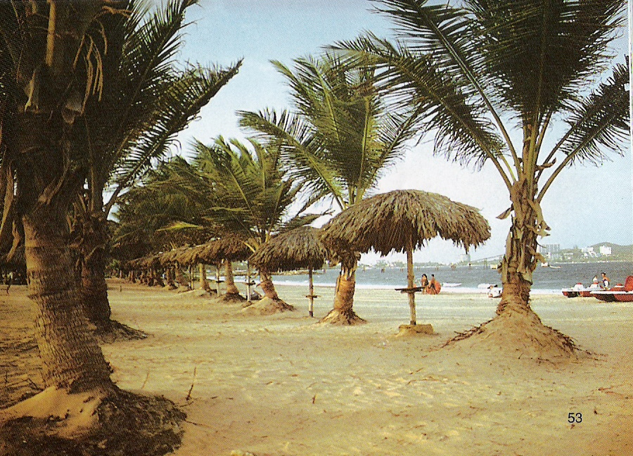 Playa Varadero, Isla de Margarita, Polarmar, Venezuela